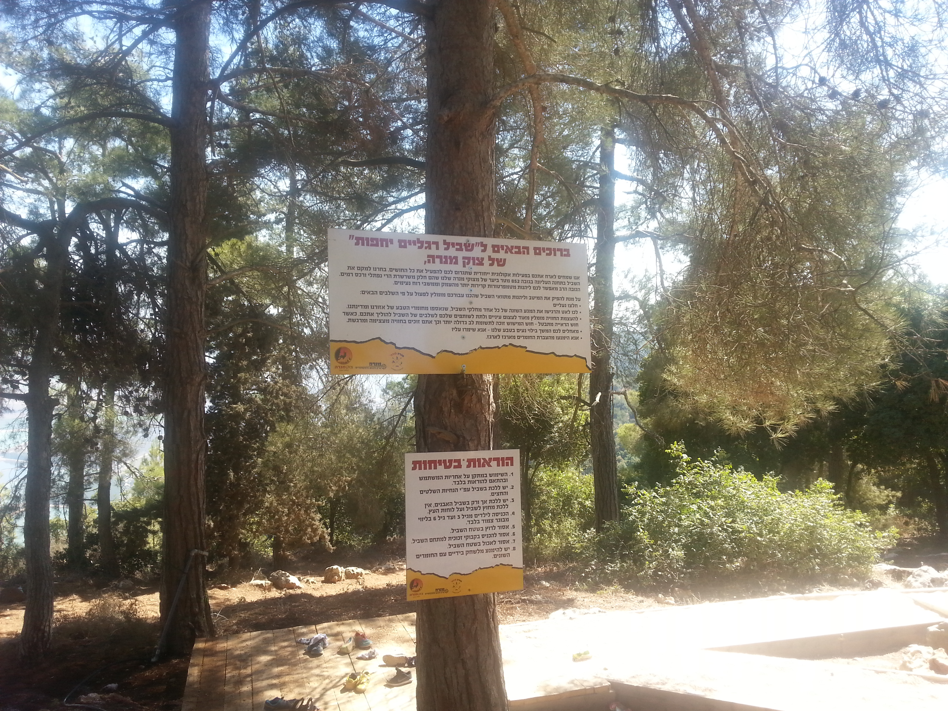 Barefoot path on Manara Cliff